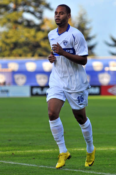 Picture of soccer player, Kyle Porter. Wilson Wong photo.